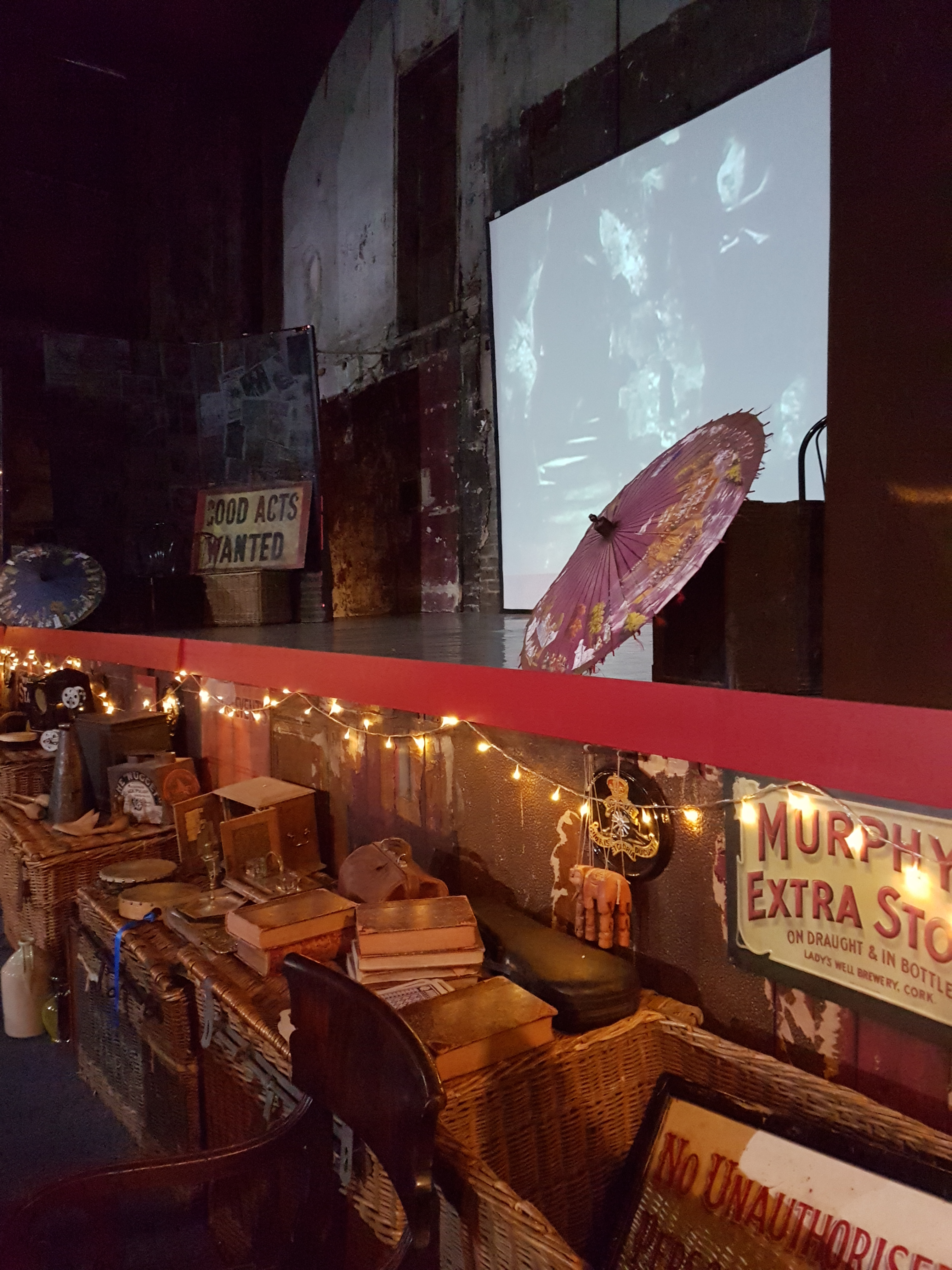 Britannia Music Hall Wikidata has entry Q11838924 with data related to this item.